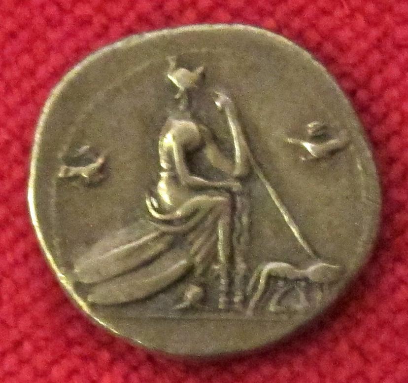 Ancient Roman coins in the Museo archeologico nazionale (Florence)